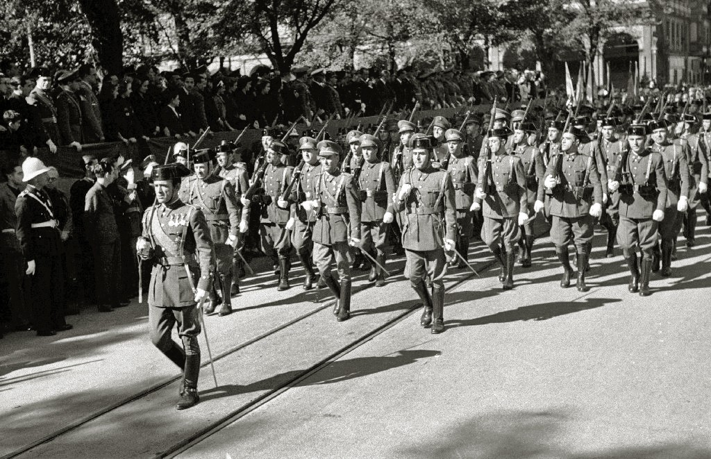 Parade of members of the Spanish state security forces in San Sebastian, Guardia Civil and Policía Armada